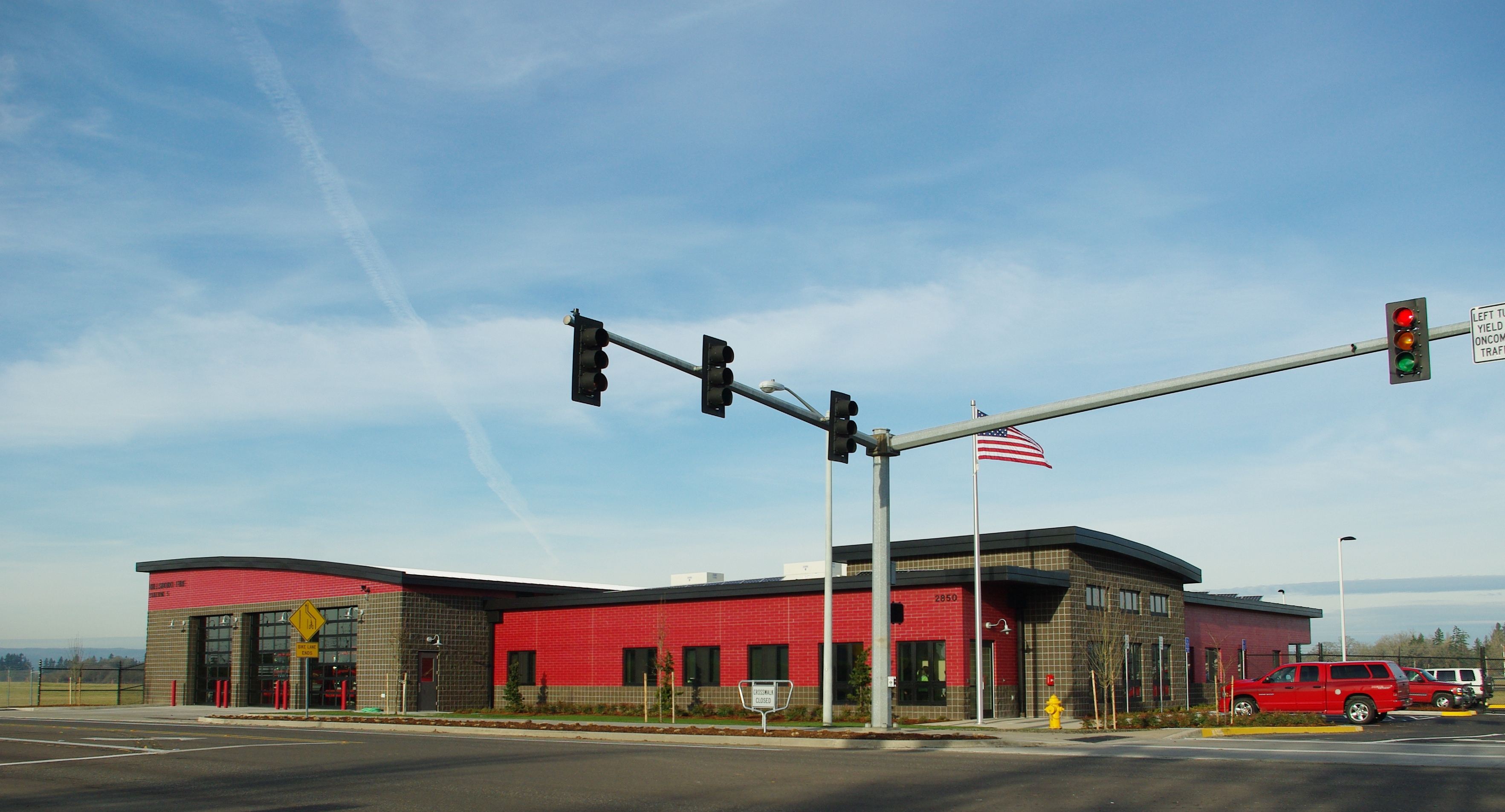 Jones Farm Fire Station in Hillsboro, Oregon.